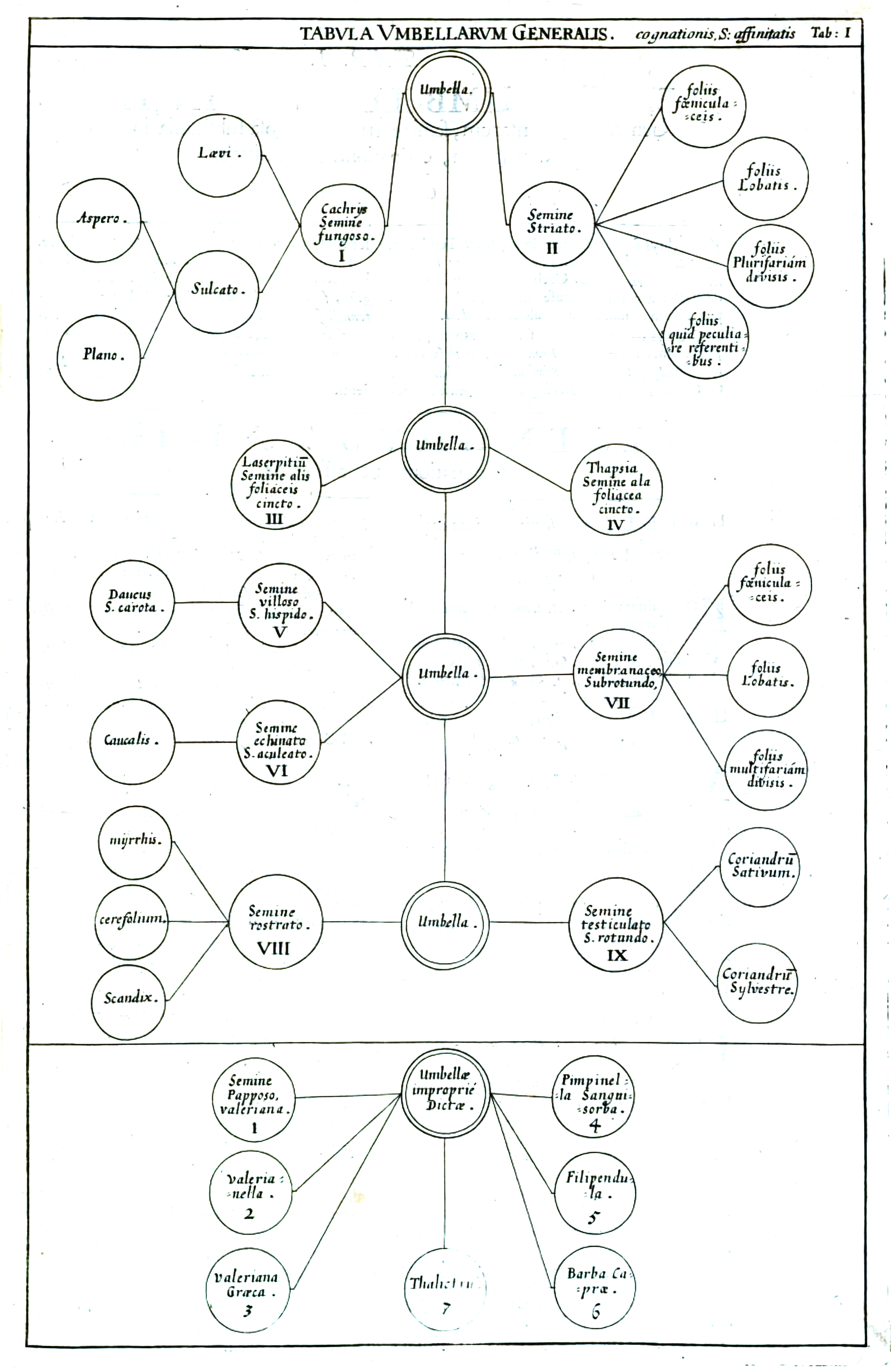 Robert Morison's tree of umbellifers - table 1